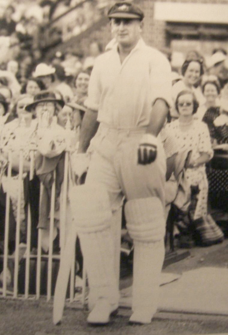 Stan McCabe walks out to bat in the first Bodyline Test